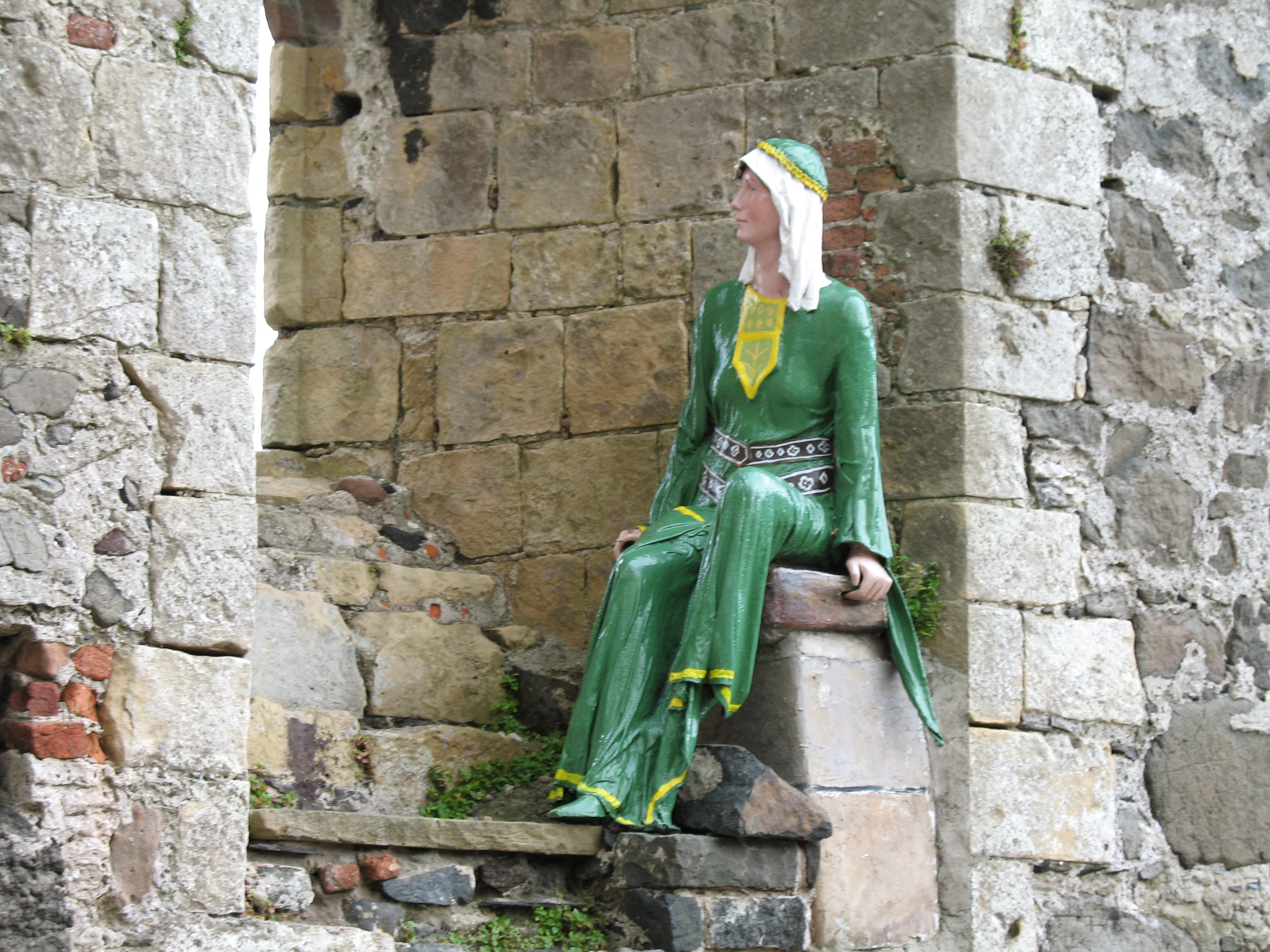 Photo of the mannequin of Affreca de Courcy at Carrickfergus Castle. Original caption: She's looking toward the Isle of Man.